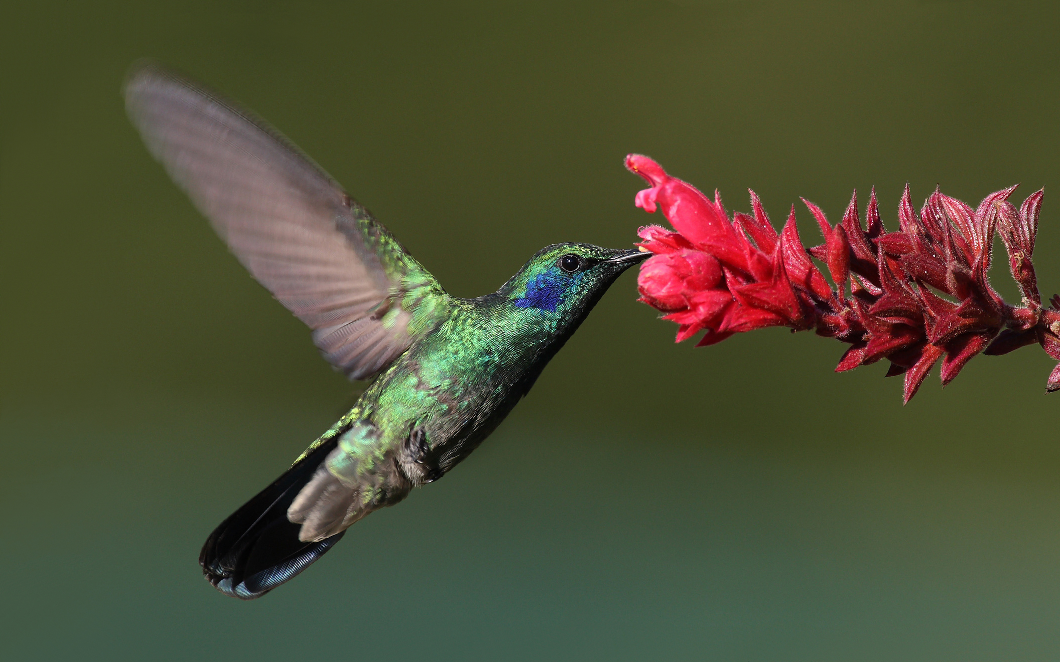 Green Violet-ear -- Finca Lerida, Boquete, Panama.